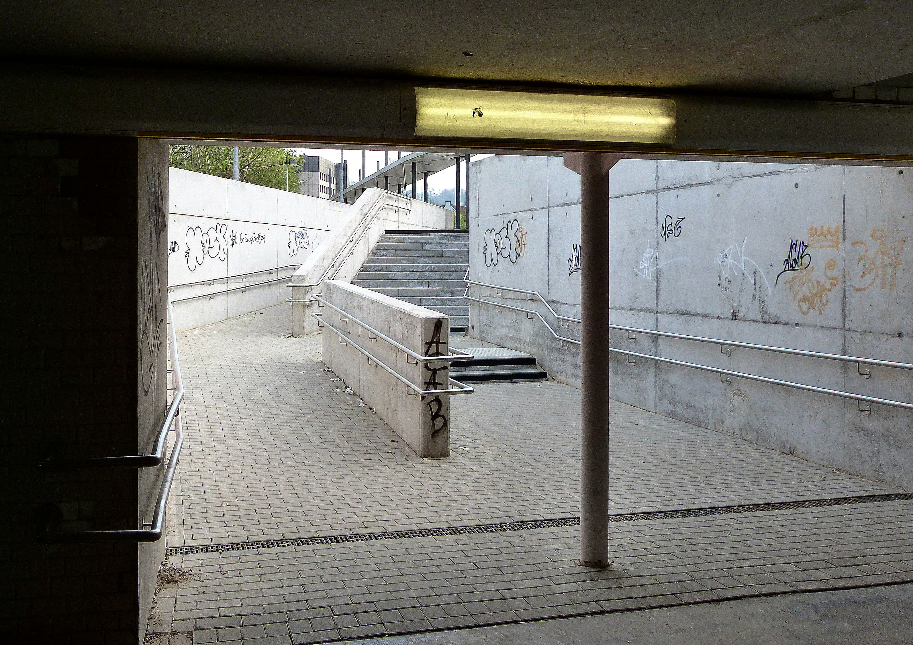 Accessibility to track underpass free since April 2013. Viewing direction out from the underpass to the bus station in the background the town hall Vlotho